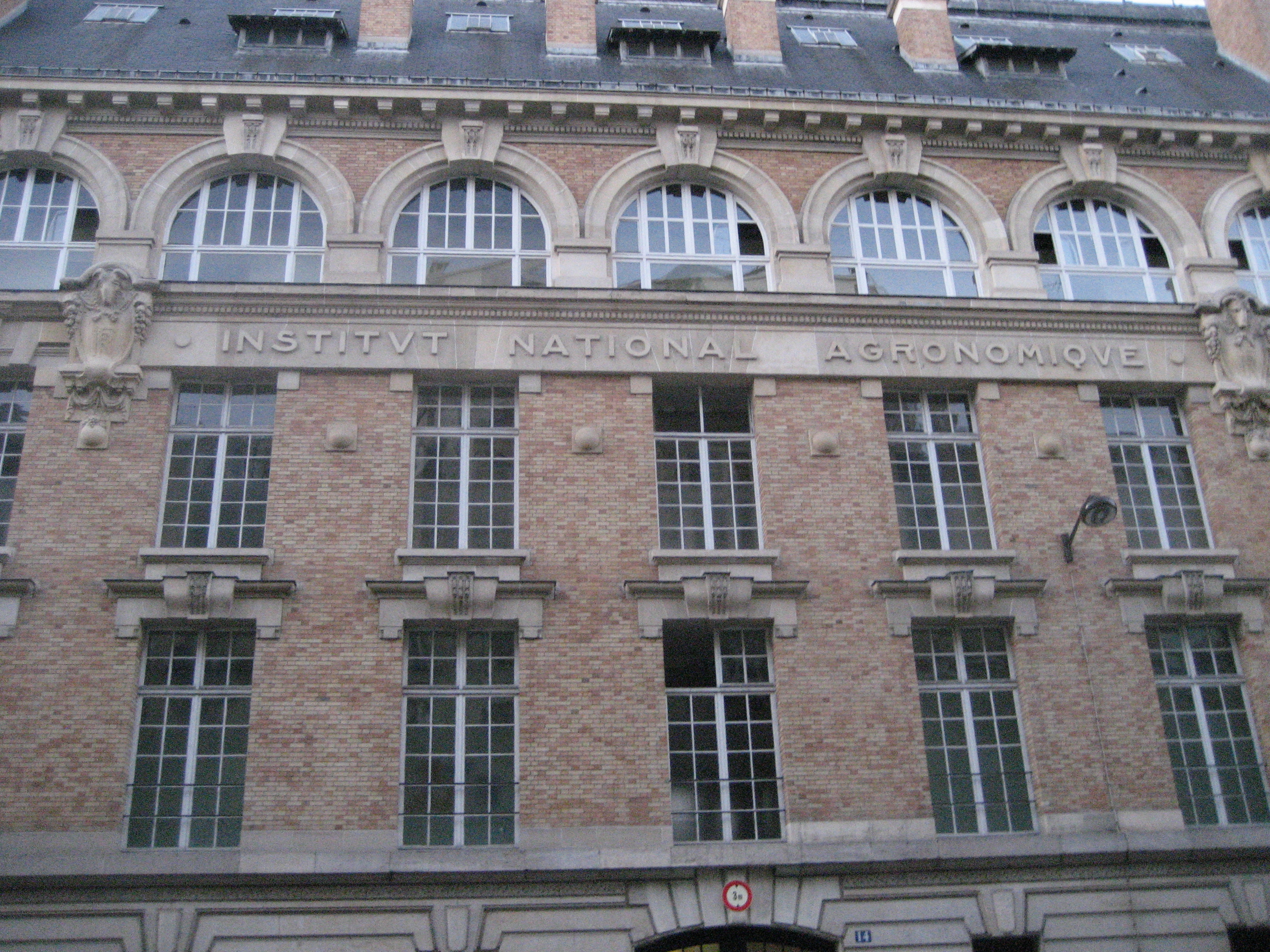 Institut National Agronomique, Paris